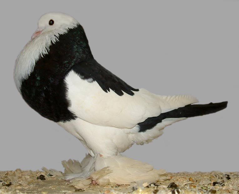 Ghent Cropper (Black Magpie-Marked)